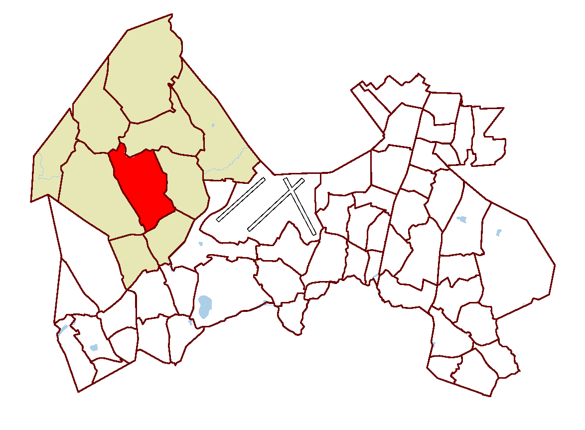 District of Kivistö (marked red), within Martinlaakso service area (marked light brown) in Vantaa, Finland